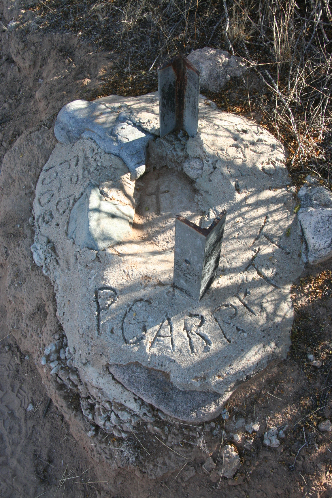 This is the memorial marker created by Jarvis Garrett (Pat's son) at the spot where his father was killed.